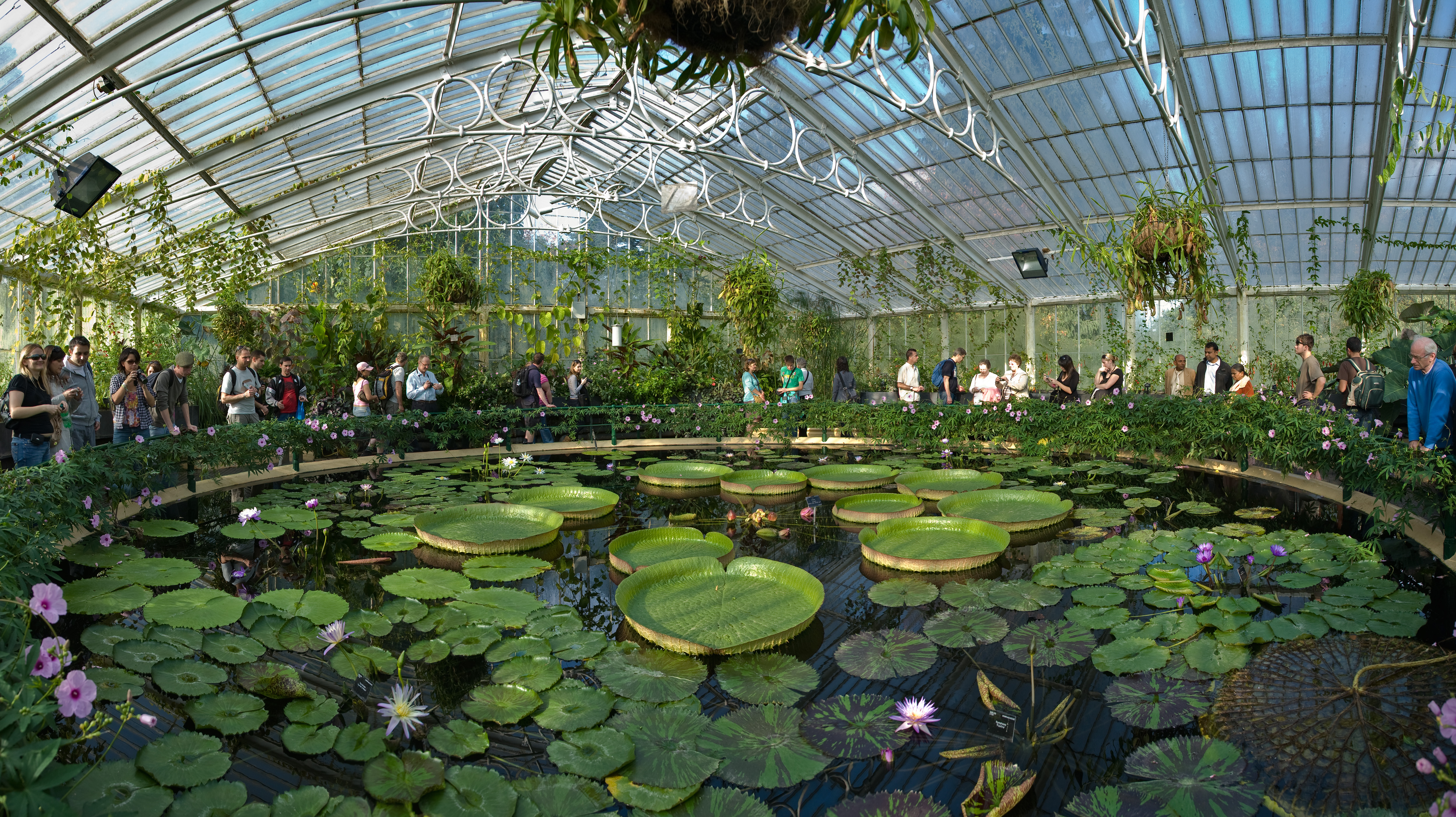 A wide panoramic view of the Waterlily House in Kew Gardens, London, England. Taken by myself as a 2 x 3 segment panorama with a Canon 5D and 24-105mm f/4L lens.